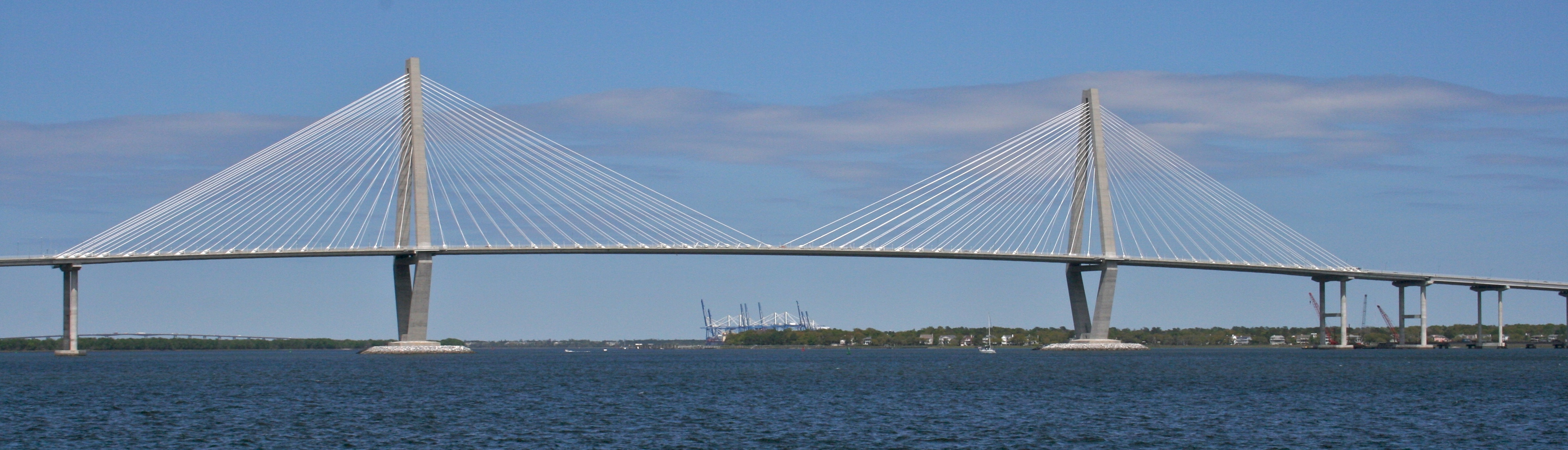 Picture of Arthur Ravenel Jr. Bridge in Charleston, South Carolina. Cropped and levels adjusted slightly for brightness.